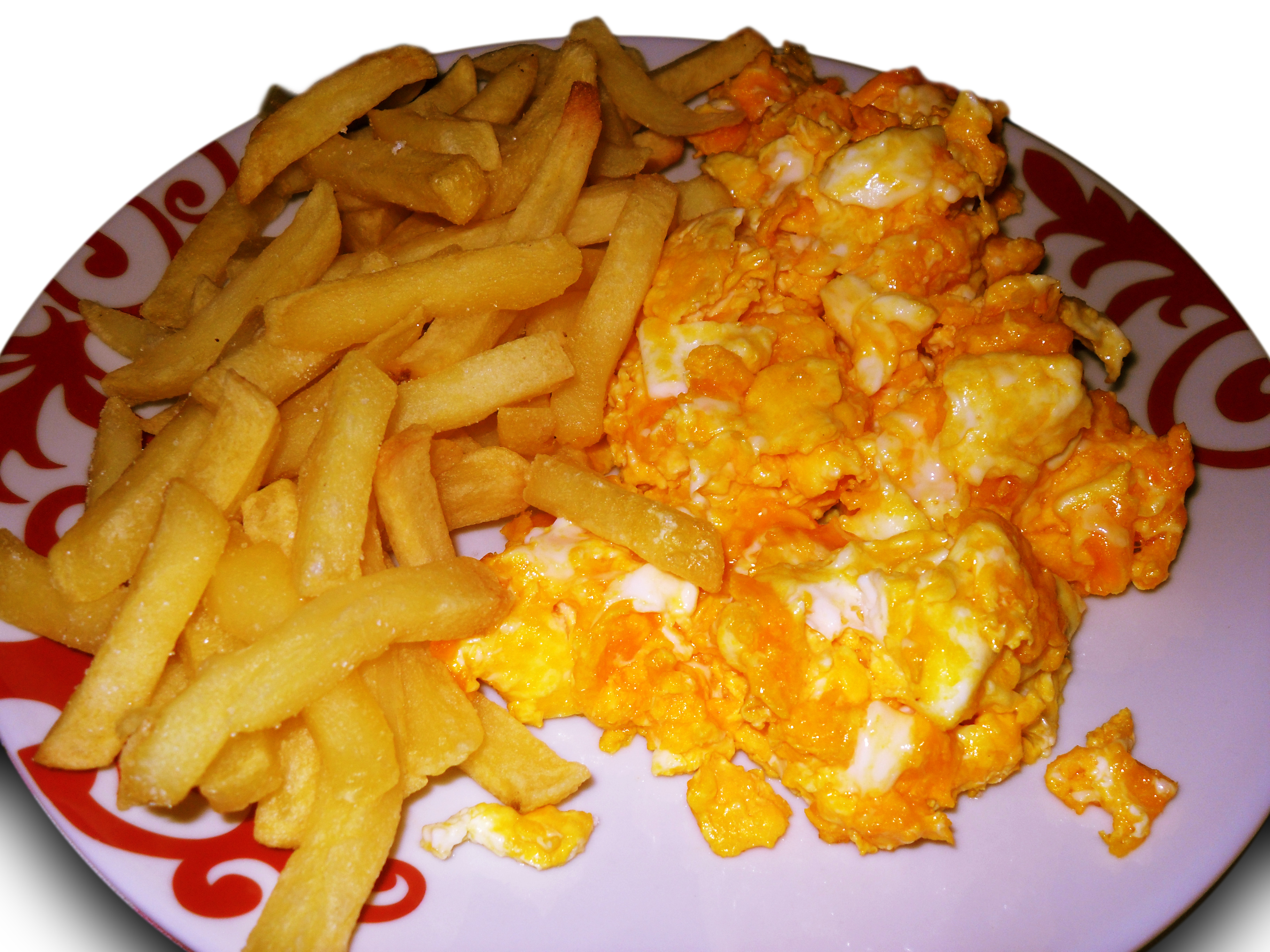 Scrambled eggs with french fries.